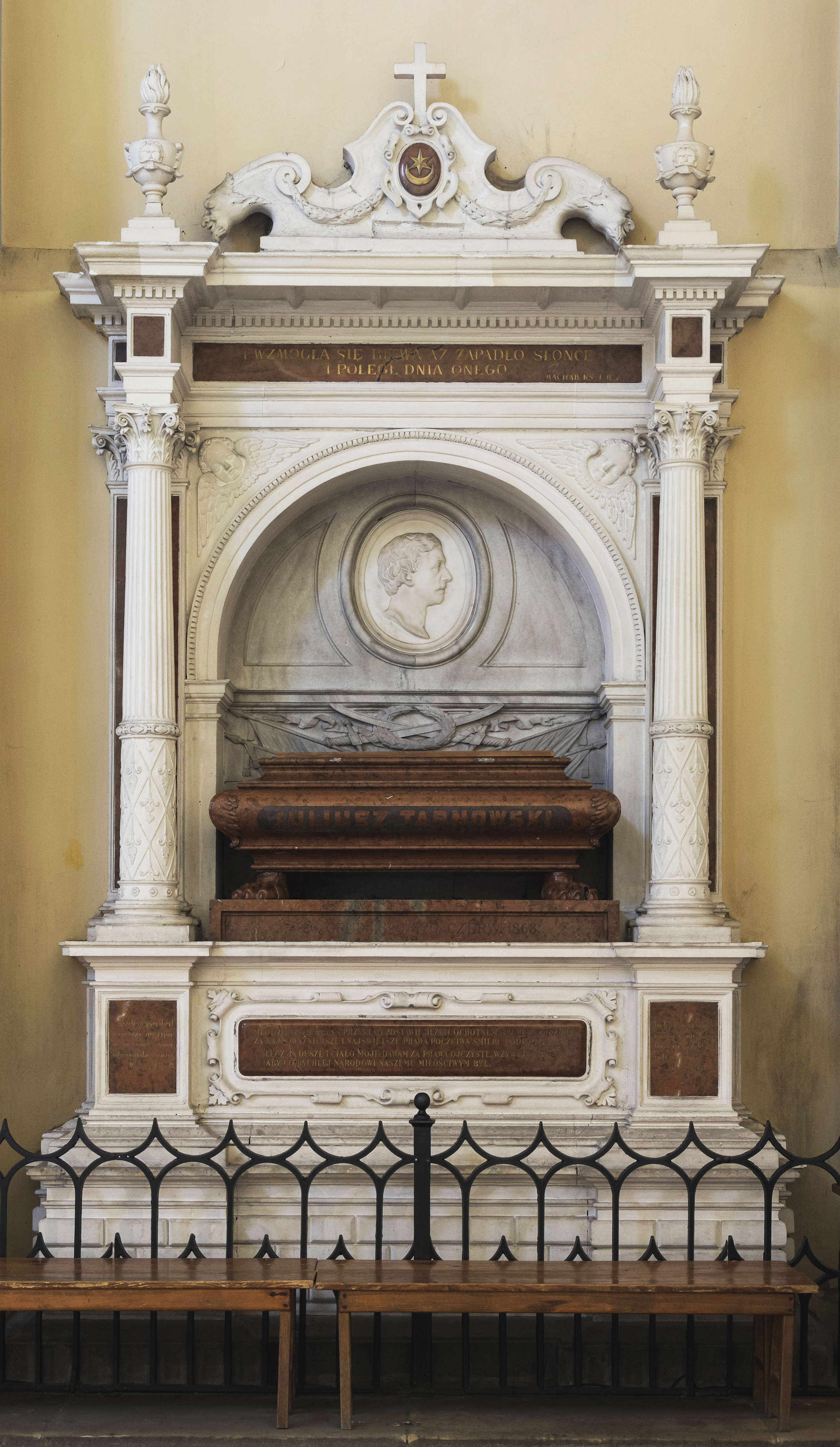 Church of the Assumption in Tarnobrzeg